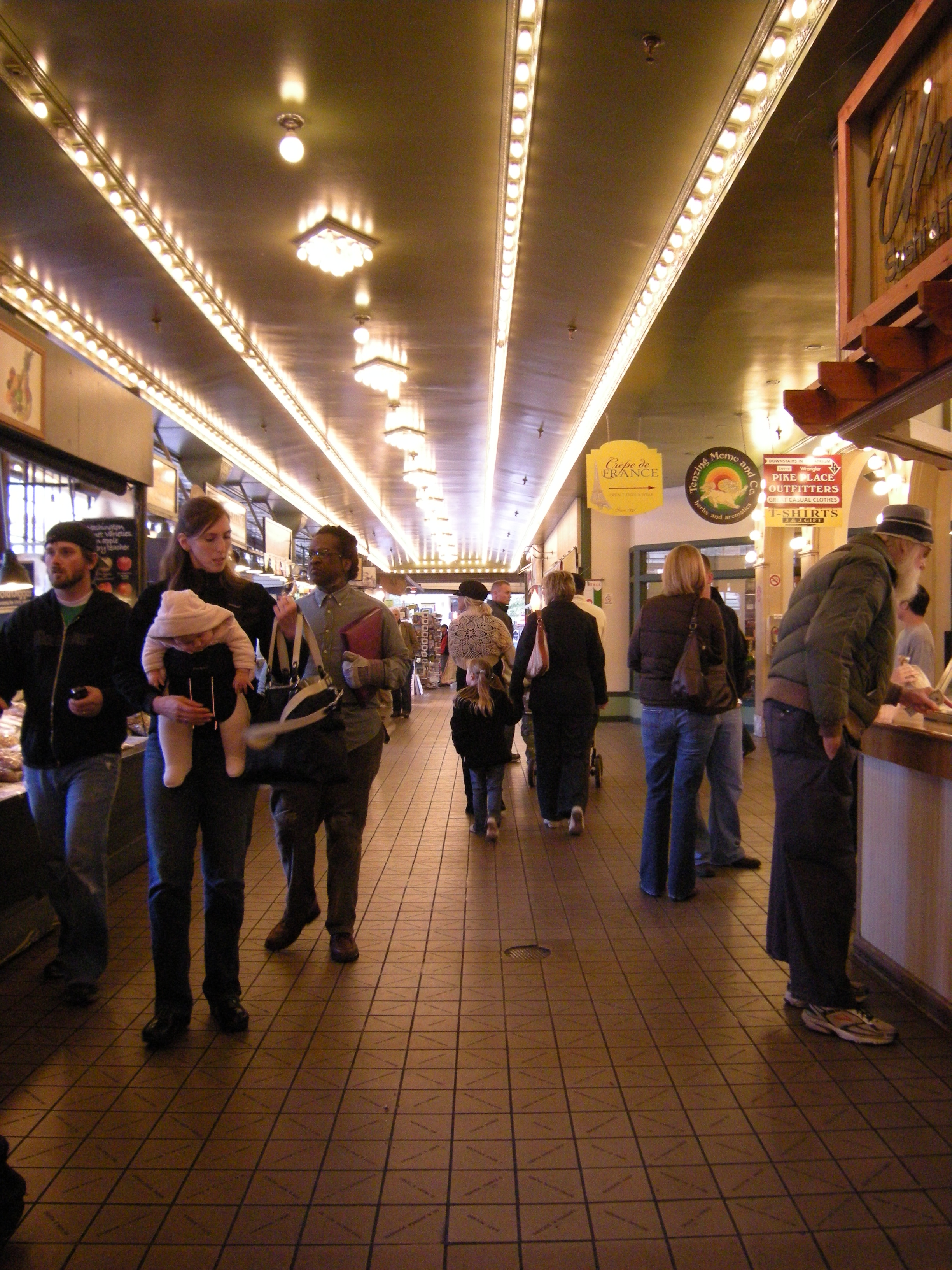 Arcade of the Economy Market, Pike Place Market, Seattle, Washington. First Avenue can be seen in the background. The Arcade is on the south (technically southeast) side of Pike Street and runs parallel to the street. This is along the portion of Pike Street where the street splits and part of it descends to lower Post Alley. See Image:Seattle - Il Bistro 01.jpg.